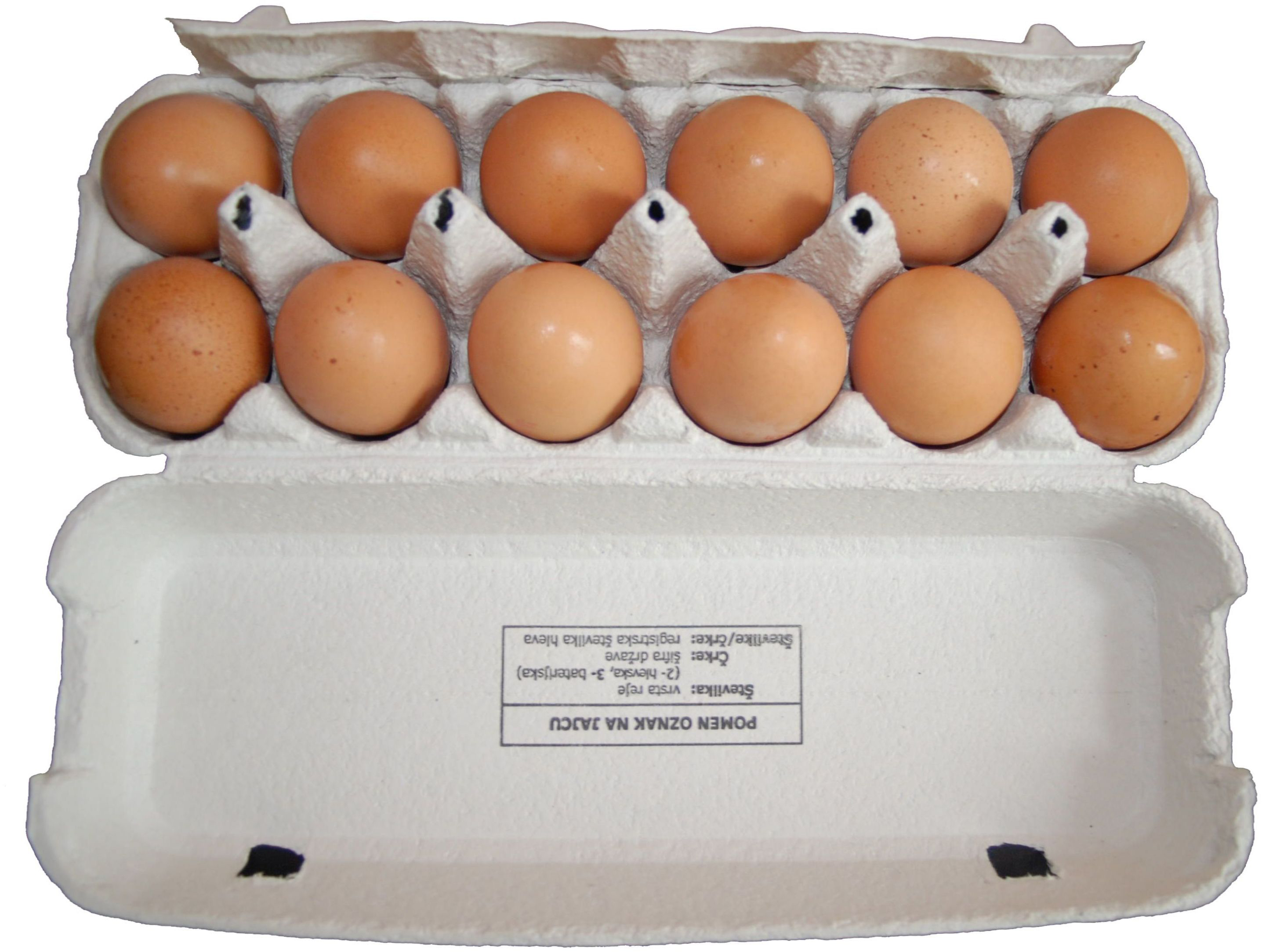 A box of eggs. The eggs from below the Kamnik mountain pastures (protected geographical indication), produced by the company Jata.